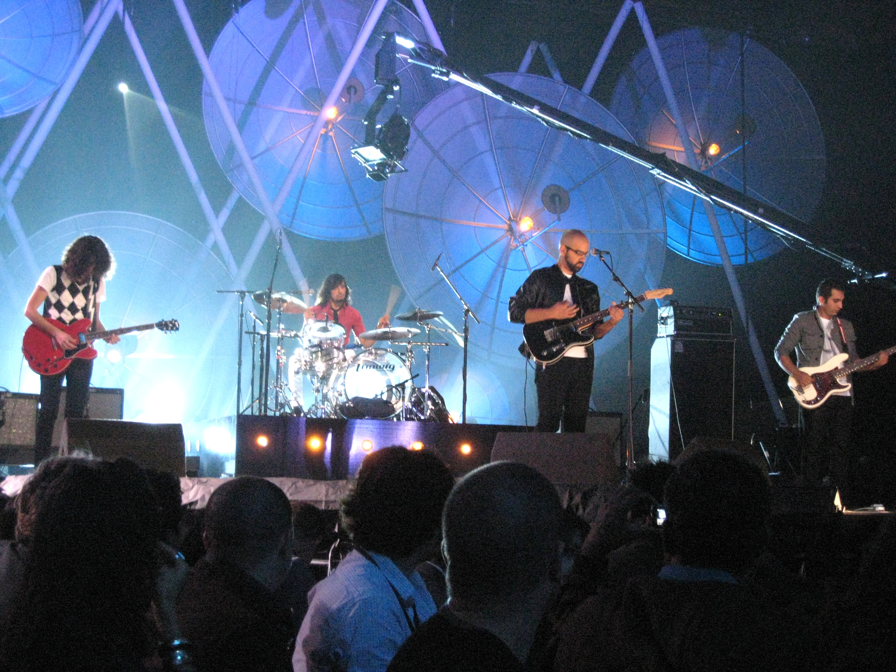 Iranian indie rock band live in SF